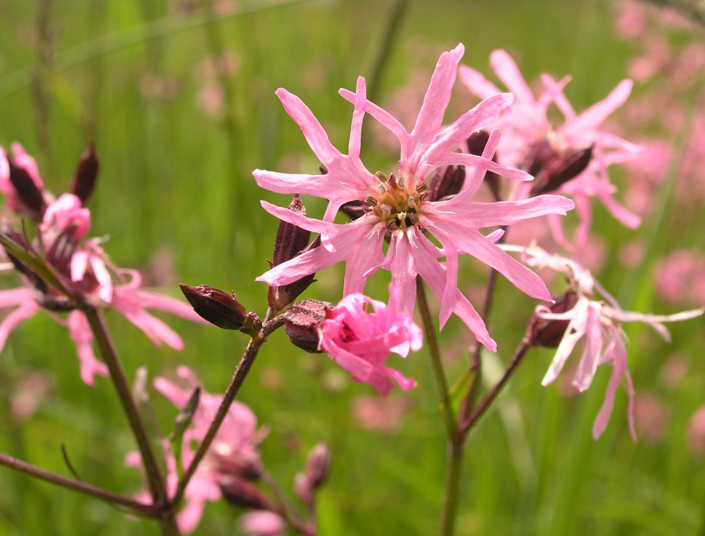 Name: Lychnis flos-cuculi. Family: Caryophyllaceae